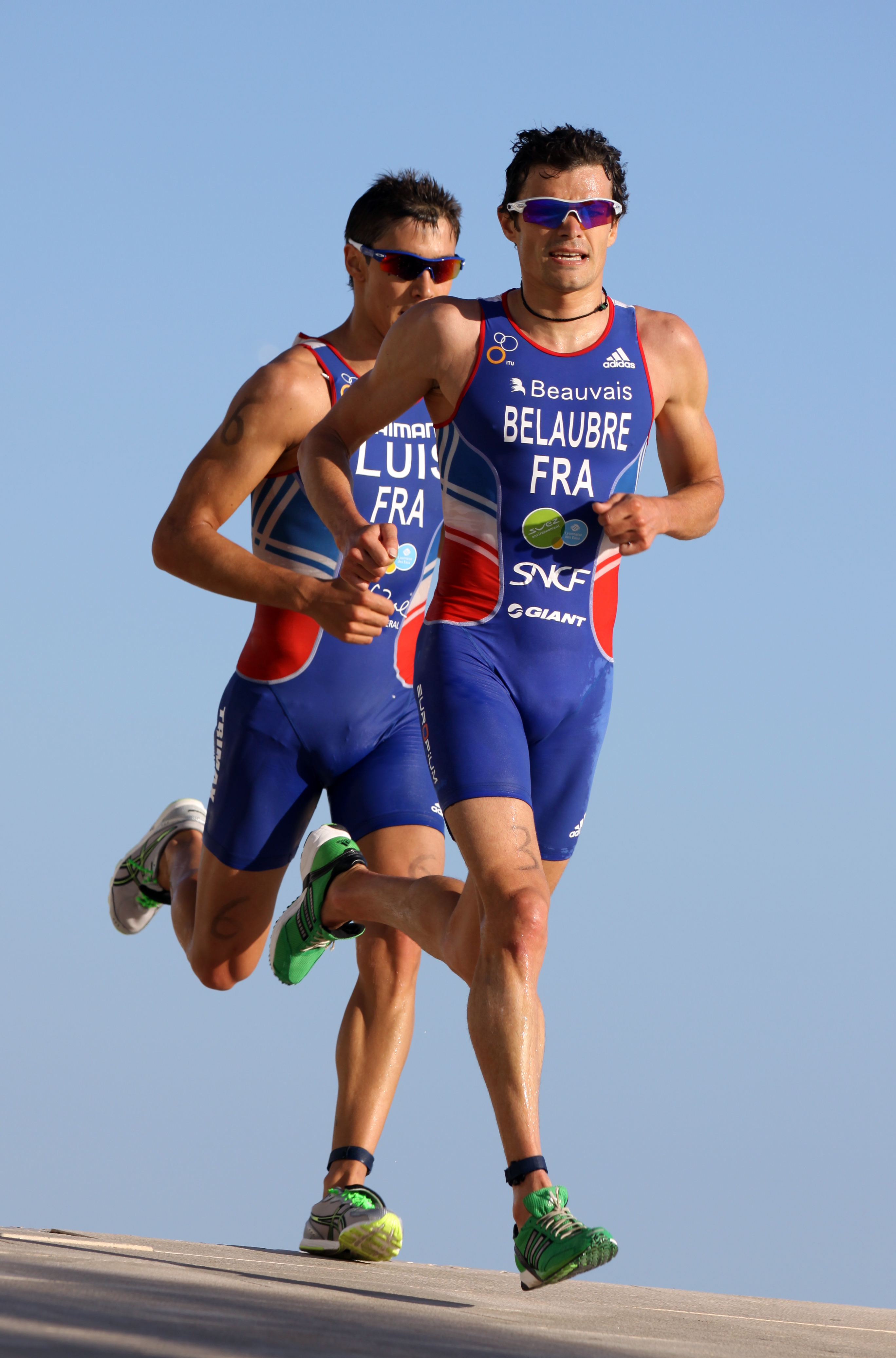 Fred Belaubre (silver medalist) and Vincent Luis (gold medalist) at the European Cup elite triathlon in Quarteira, 2011.